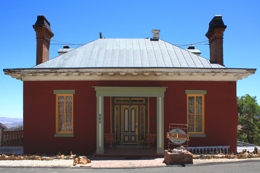 Virginia City, Nevada, USA, Chollar Mansion - the Chollar Mine office and the residence of the original mine superintendent, William Chollar (short history states it was built between 1861-1863). The sign says "565 South D Street, Chollar Mansion, Mine Office and Residence, Est. 1861"; however, the National Register of Historic Places document states that construction began in 1862 and was completed in 1864 (see page 7 of the NRHP registration which is also found in the reference number link below).